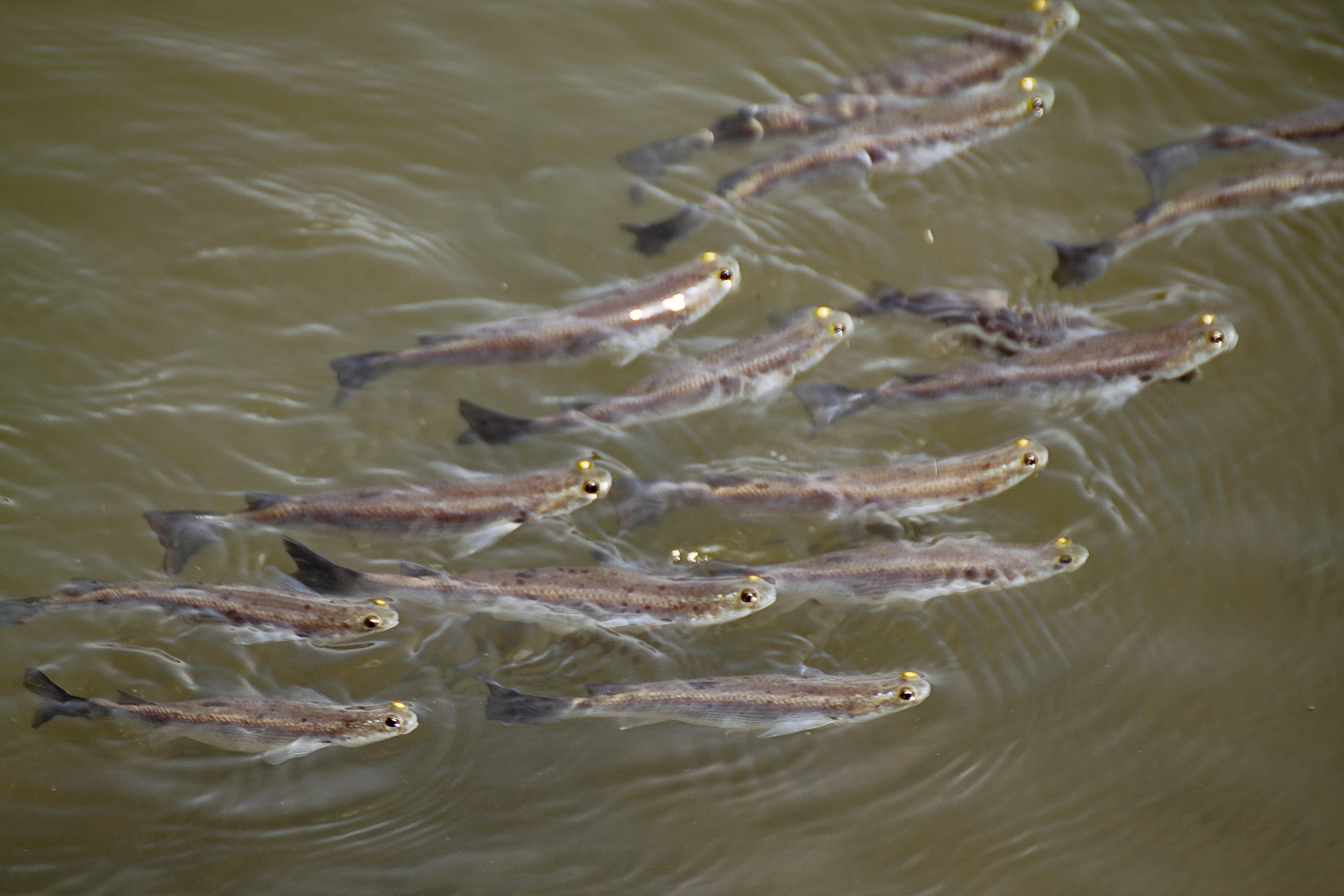 False four-eyed fish (Rhinomugil corsula) in River Betwa, Orcha